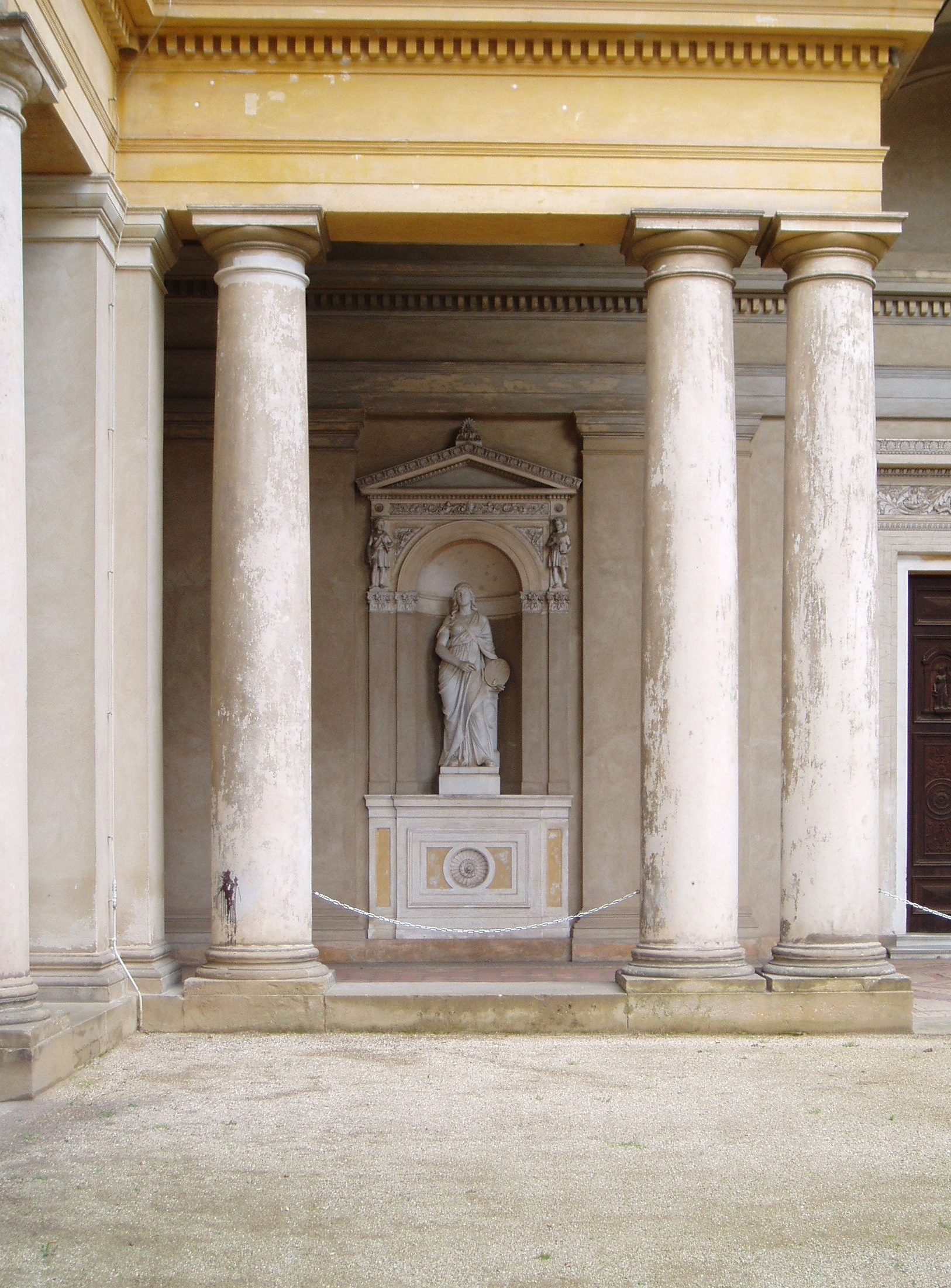 Allegorie "The Painting", Orangery palace, Potsdam, Germany